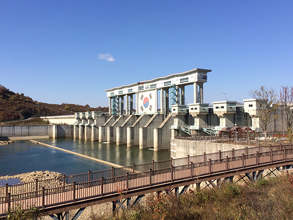 Gunnam Dam of South Korea